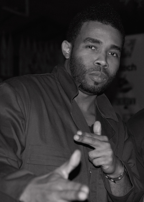 Pharoahe Monch at SXSW 2010.